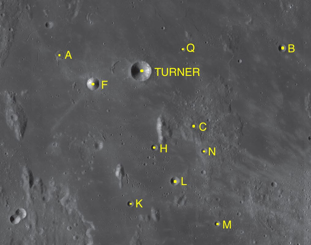 Part of the chart LAC-76 used for the presentation.